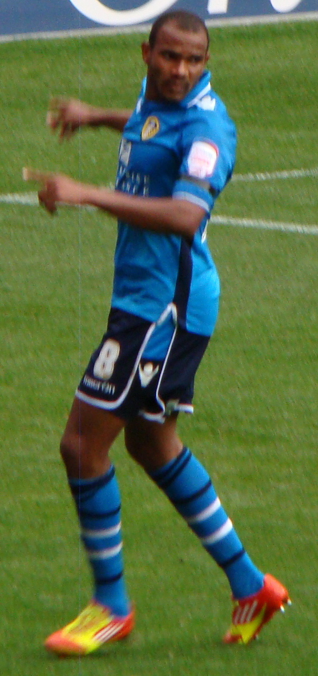 15/09/12 Cardiff v Leeds United, Championship, Cardiff City Stadium, Cardiff, Wales